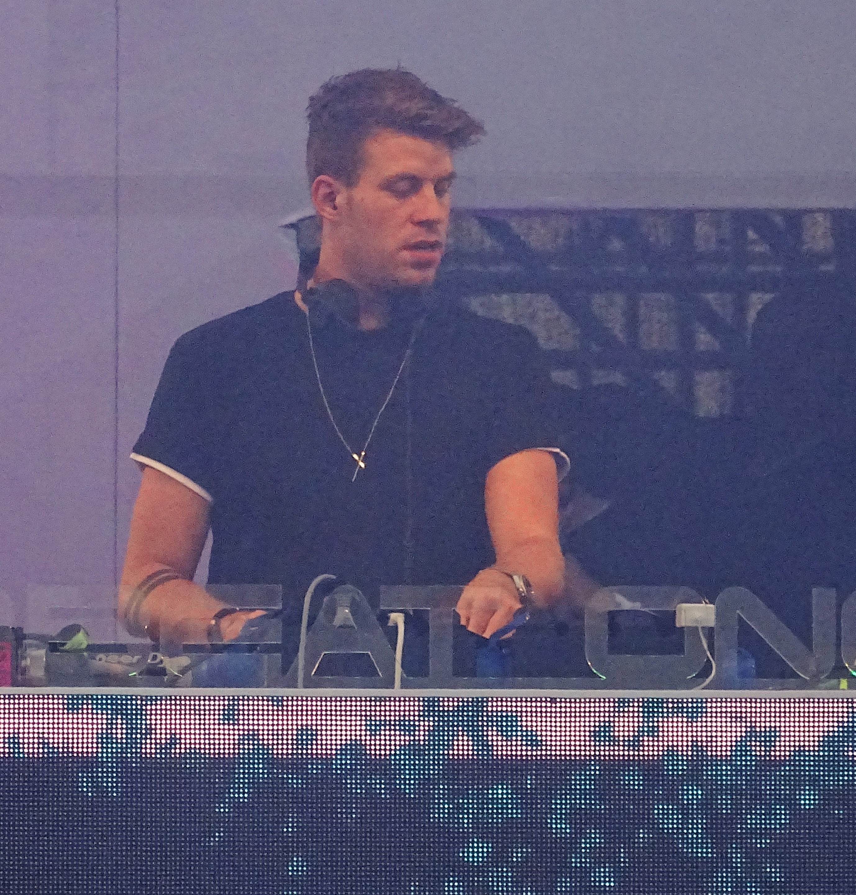 Tujamo playing live at Airbeat One 2017 in Neustadt-Glewe, Germany.